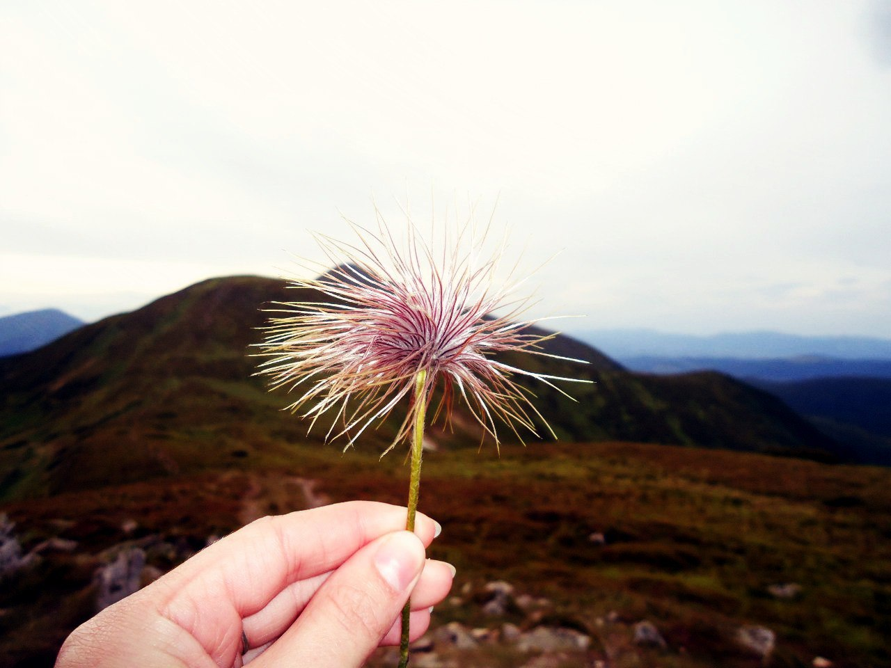 Pulsatilla patens is a US native species of flowering plant in the family Ranunculaceae